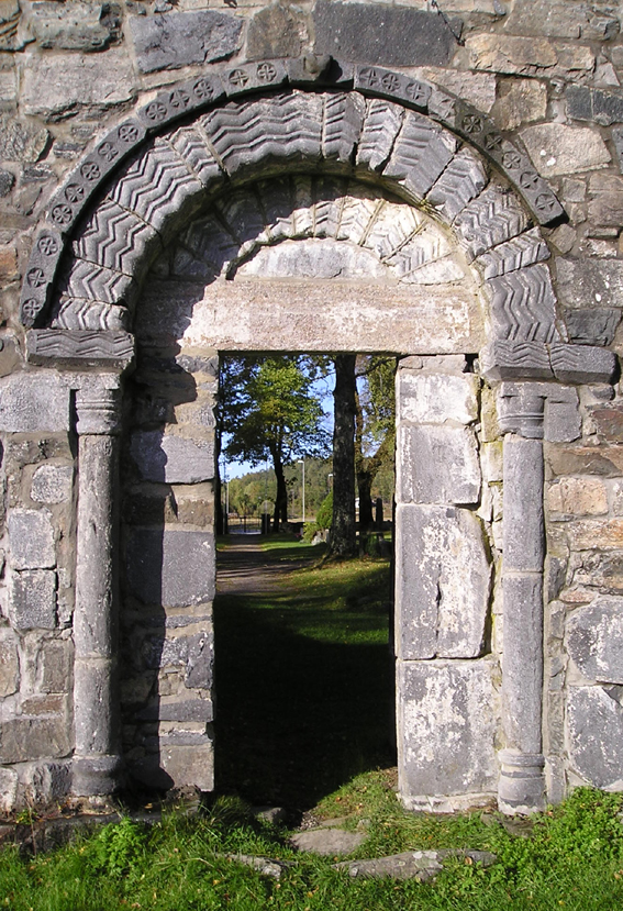 The main portal of the ruins of Skeidi church in Bamble, Telemark. Photo: H. E. Straume